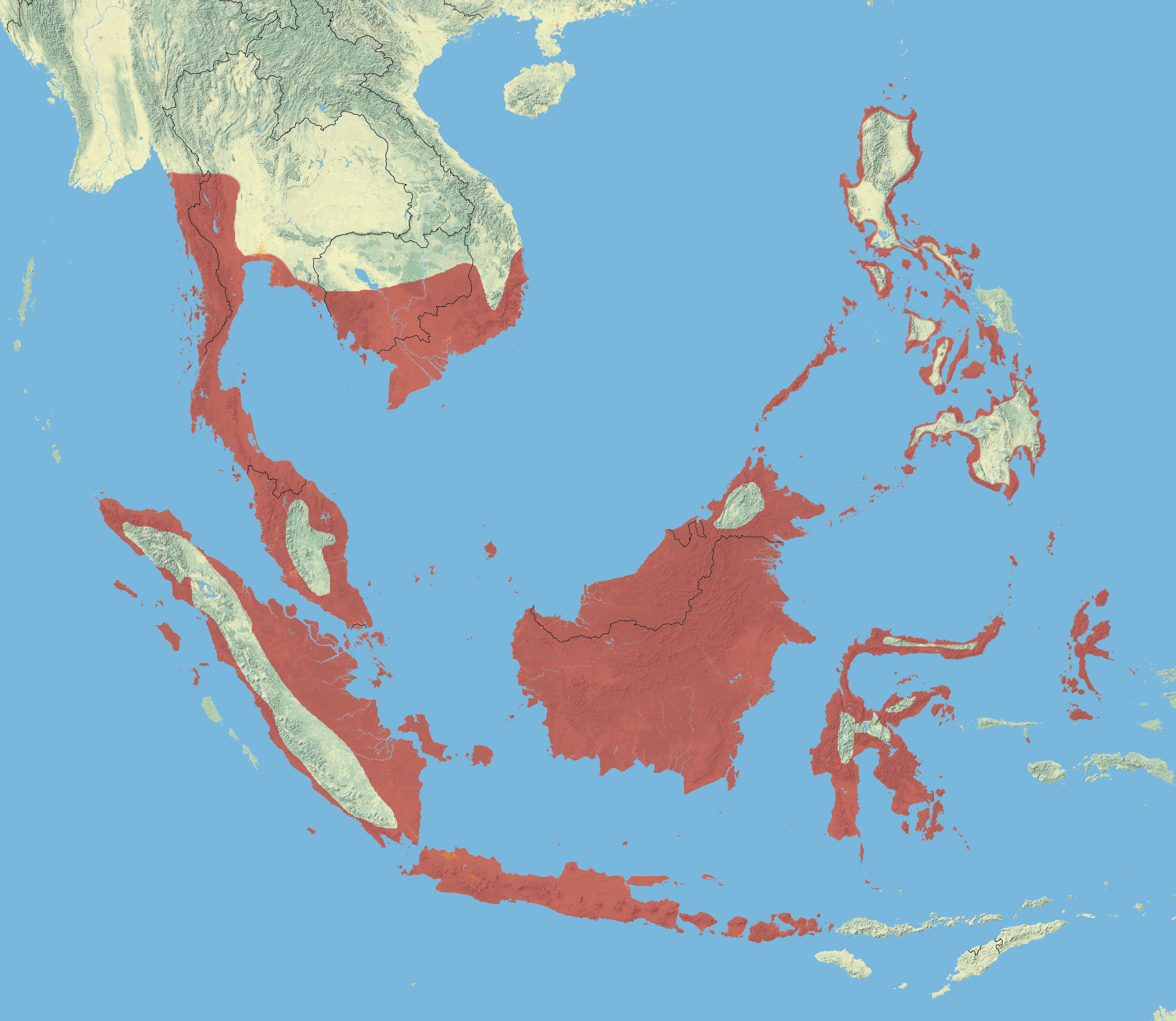 The Distribution of the Pink-necked Green Pigeon